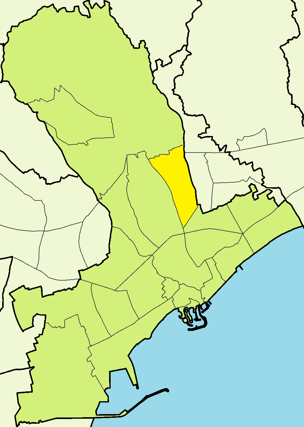 Kapsalos in Limassol Municipality